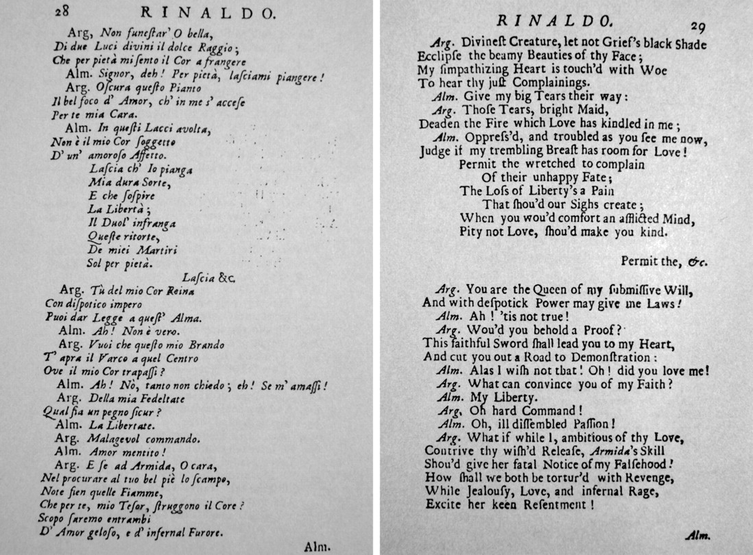 Pages 28 (in Italian) and 29 (in English) of the libretto for George Friedrich Handel's 1711 opera Rinaldo